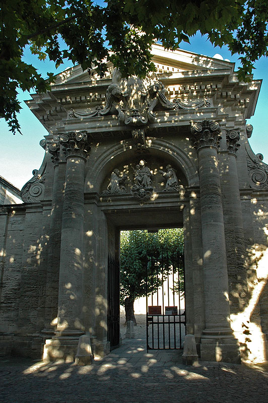 Chartreuse du Val de Bénédiction, Villeneuve-lès-Avignon, France